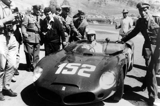 ntry #152, the 1961 Ferrari 246 SP s/n 0796 won Targa Florio on 6 May 1962. Three drivers may have been in the car: Willy Mairesse, Ricardo Rodriguez or Olivier Gendebien. This looks like Mairesse, though. [1] Location of this picture: Unknown